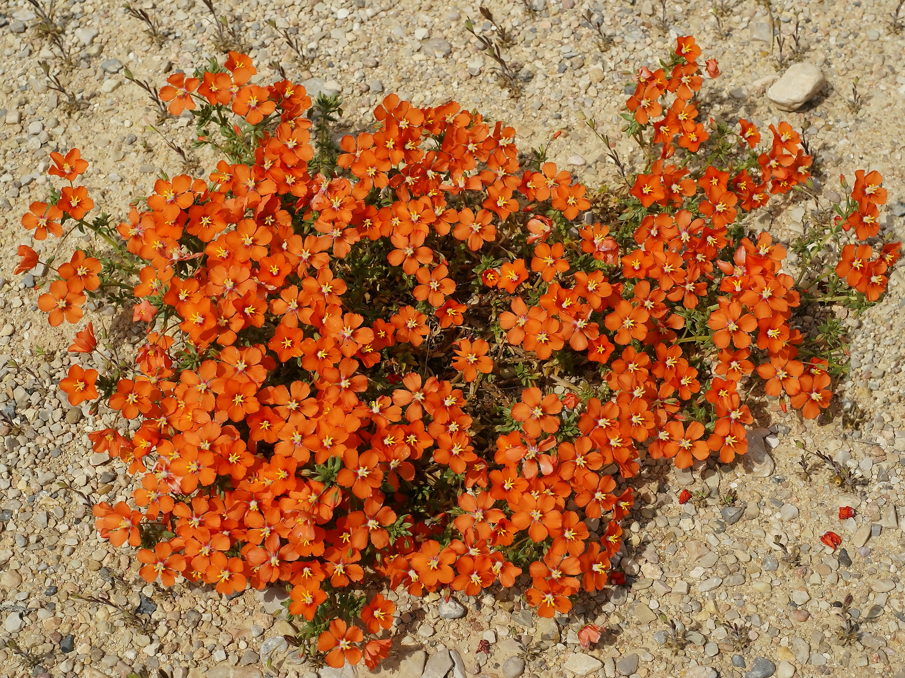 Orange colour form of the Blue Pimpernel near el Perelló (Catalonia), Spain